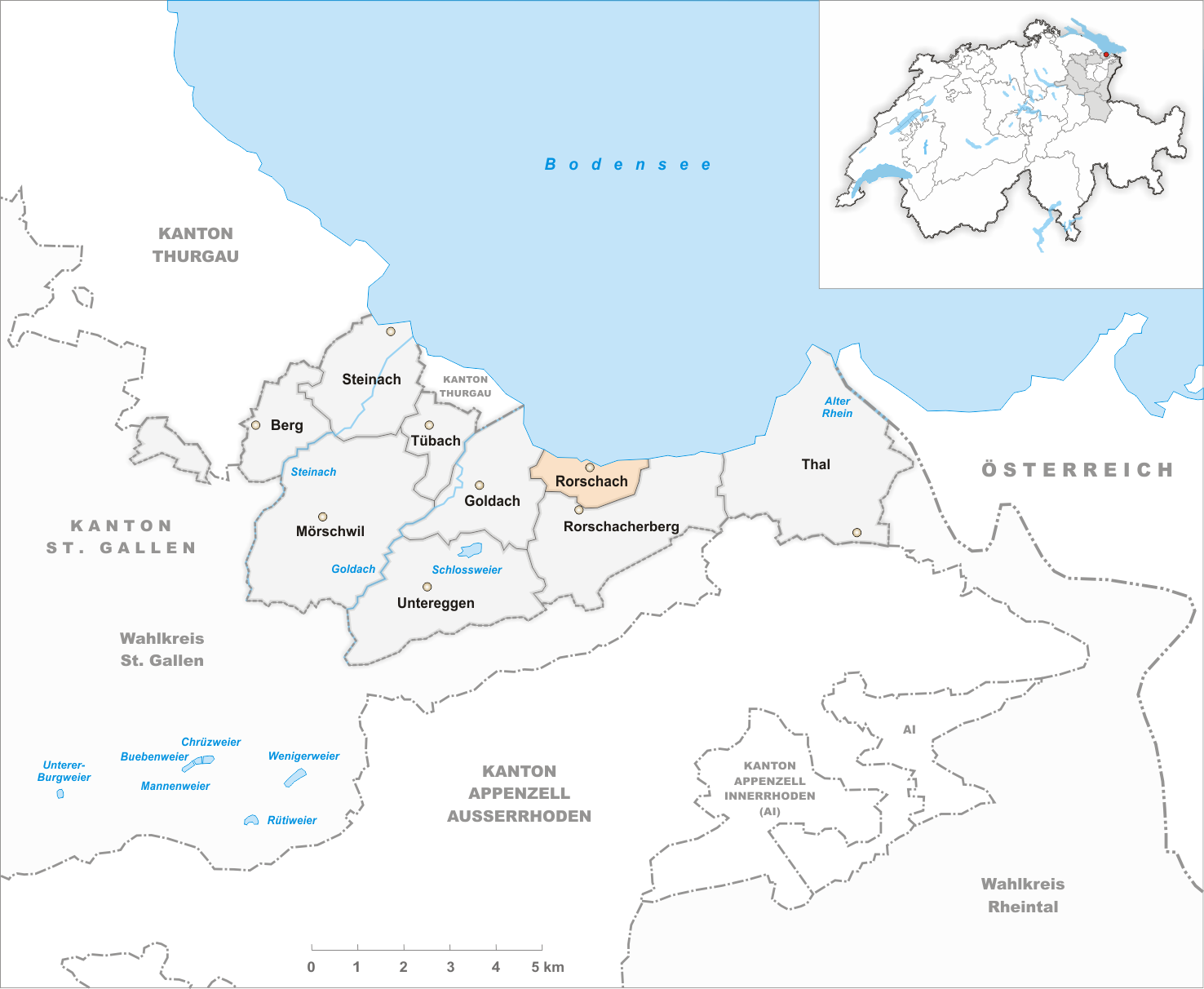 Municipality Rorschach